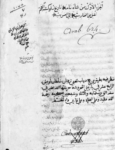 Cover page of MS Arabe 1896, Bibliothèque nationale de France (BnF), f5, the Arabic translation of the Shahnameh by al-Fath ibn 'Alī al-Bundārī (ca 1190-ca 1245)